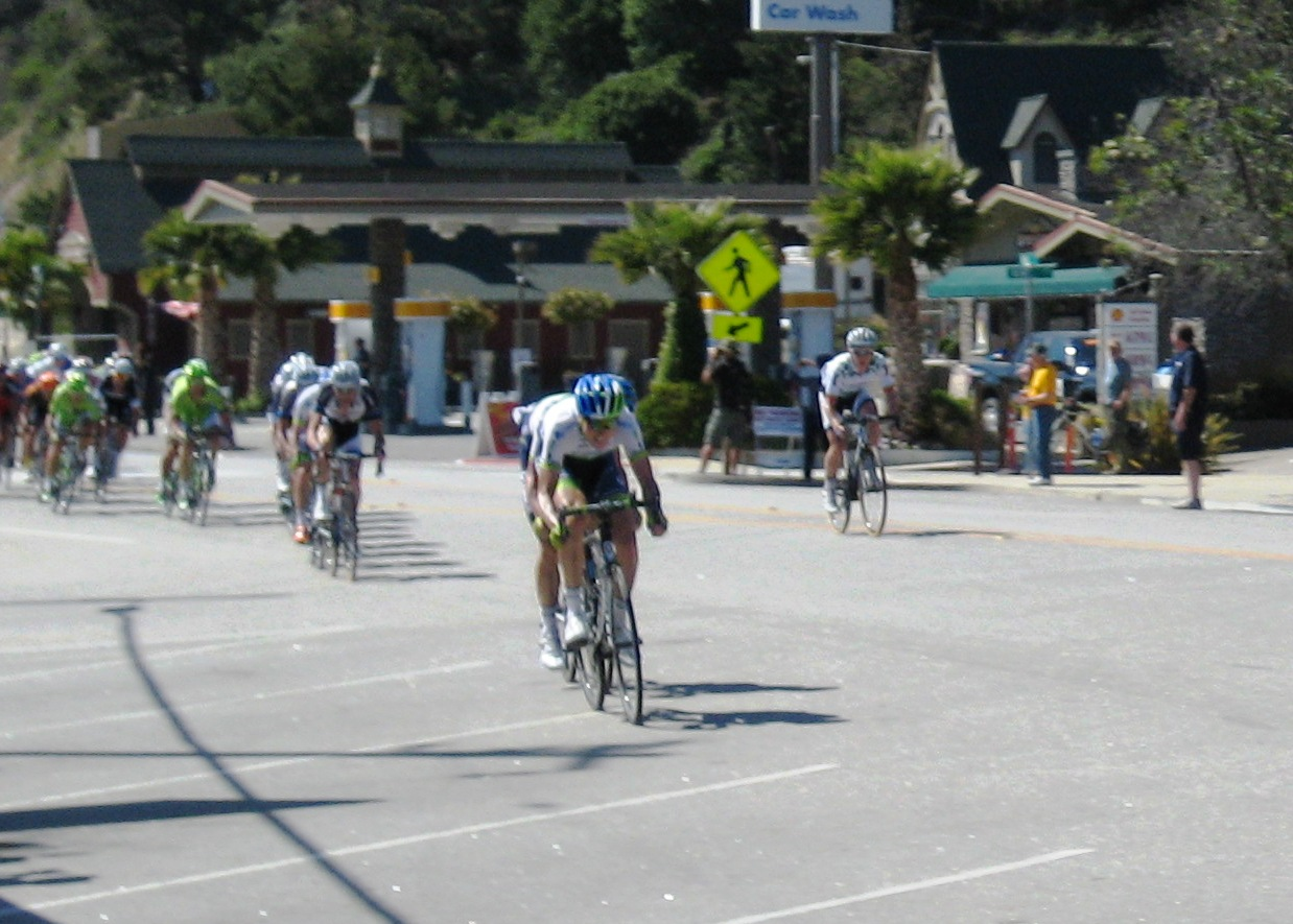 Photo taked of the riders 500 meters from the Stage 4 Finish Line in Cambria, California at the 2014 Amgen Tour of California bicycle race